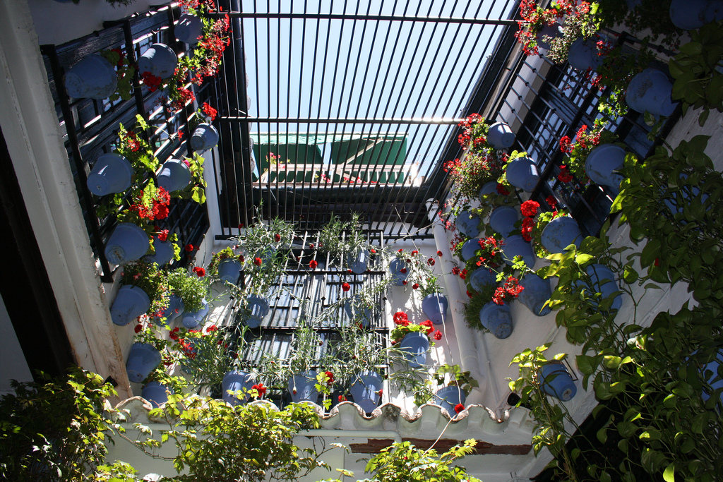 El Pimpi restaurant-wine cellar, Malaga, Spain.Unknown restaurante-bodega el pimpi, málaga, españa.